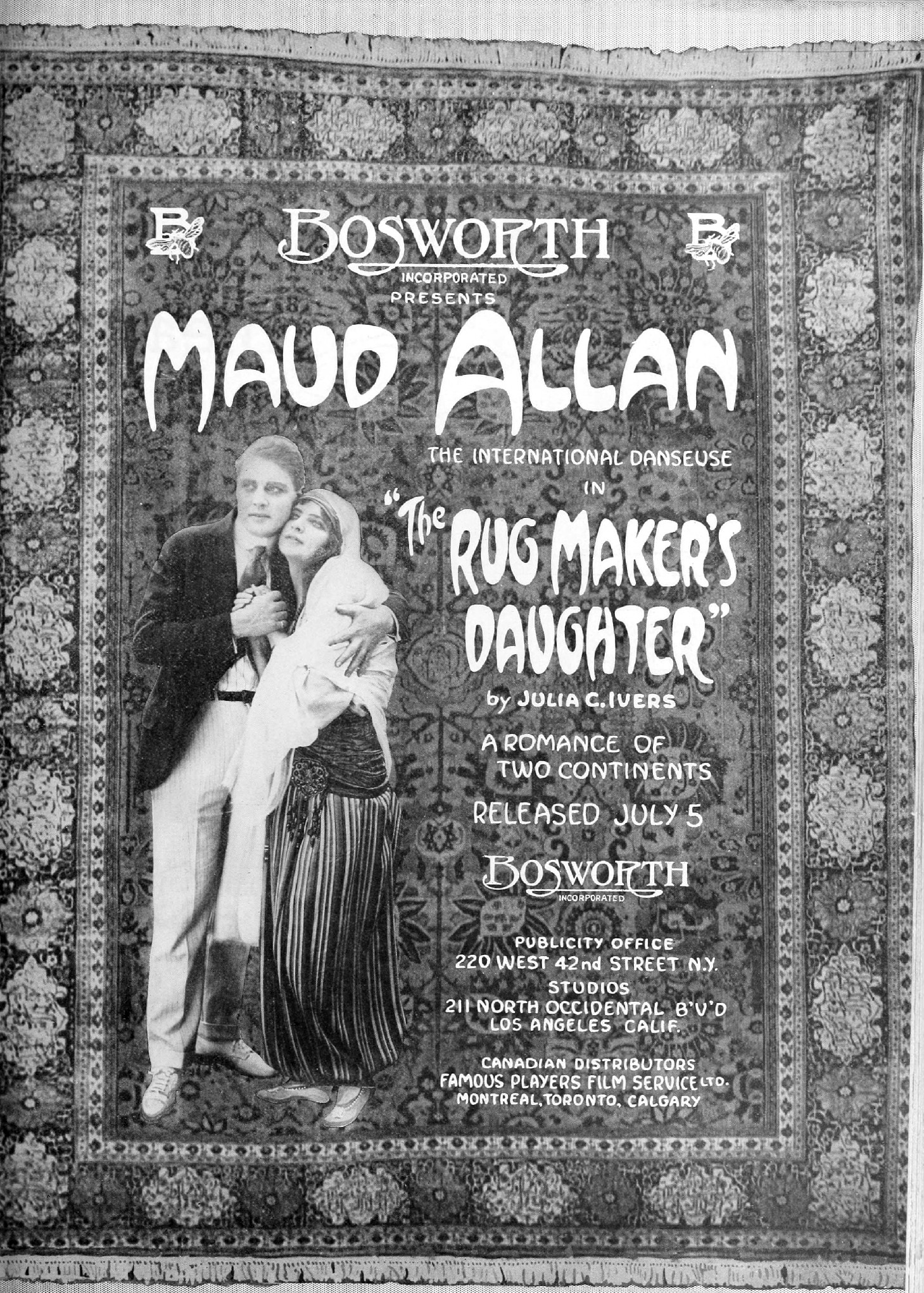 Ad for the 1915 film The Rug Maker's Daughter from Motion Picture World.